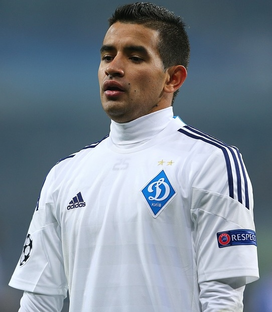 Derlis González